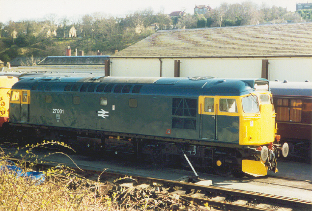 27001 at Bo'ness Railway Museum.